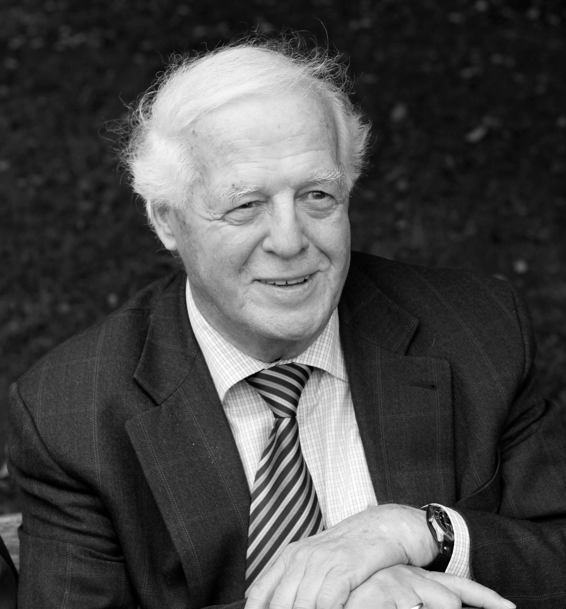 Prof. Bernhard Dahm